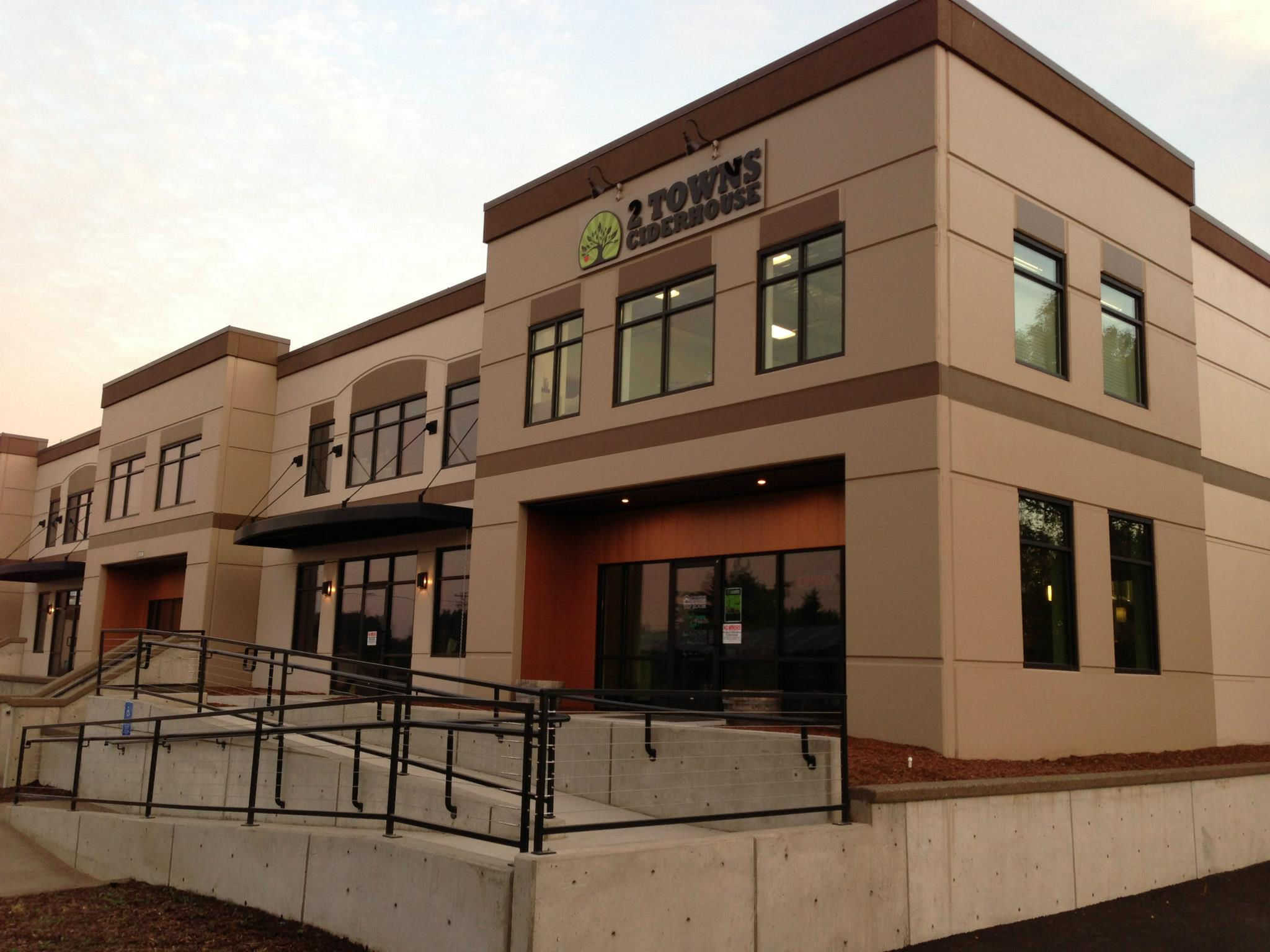 [Photo of 2 Towns Ciderhouse building located at 33930 SE Eastgate Circle, Corvallis OR 97333. 11/12/2012 ] Photo taken by [Scott Bugni]. Released by [Scott Bugni] ("Sbugni") via CreativeComons Attribution-Share-Alike 3.0.